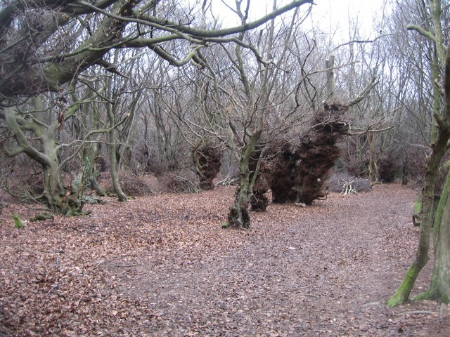 Low Scrubs (Sleepy Hollow)